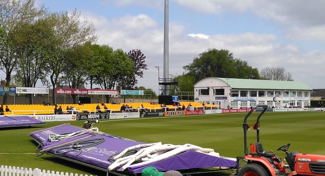 Photo taken by me at Day 2 of the tour match between Leicestershire CCC and the Sri Lankans on 14 May 2016 at the Fischer County Ground, Grace Road, Leicester. The Meet.